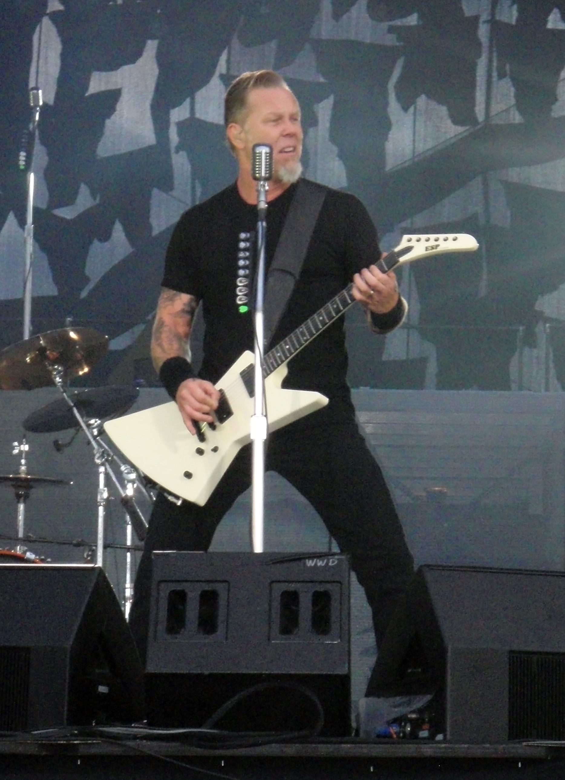 James Hetfield from Metallica performing at Sonisphere Festival in Kirjurinluoto, Pori, Finland.